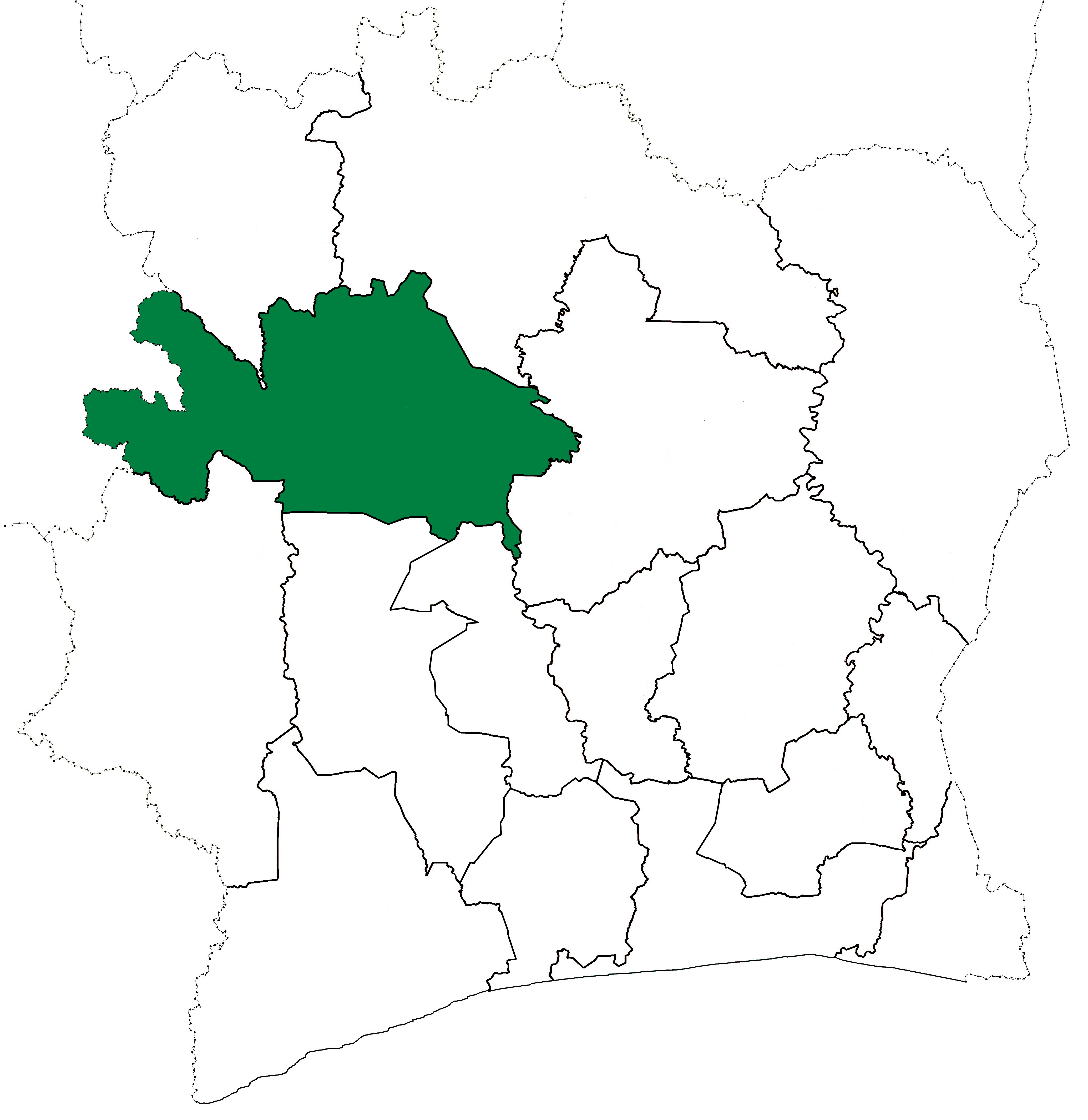 Locator map for Worodougou Region in Côte d'Ivoire when the 16 regions were created in 1997. Three new regions were created in 2000, including Bafing Region, which was carved out of Worodougou.